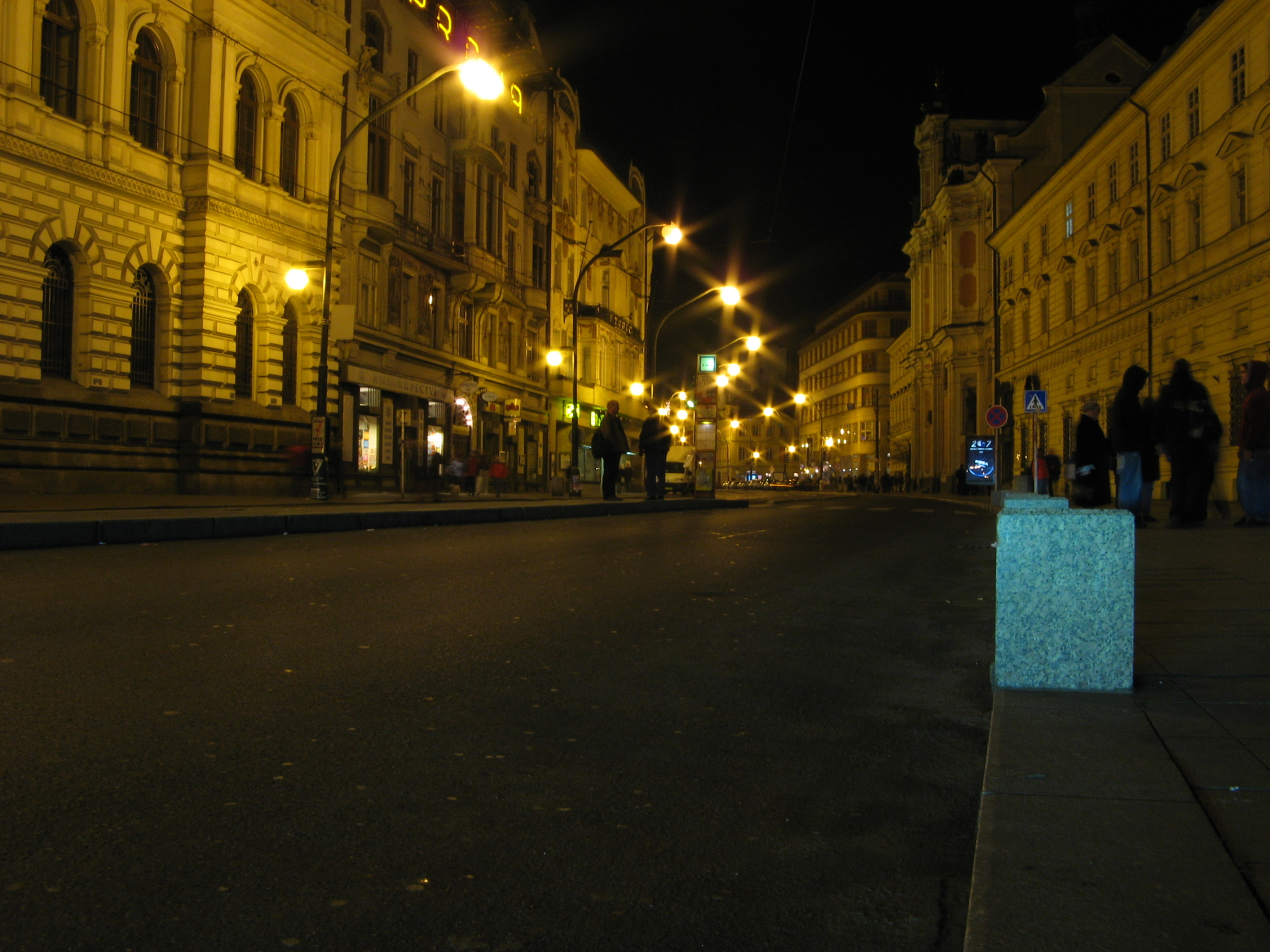 Národní třída in Prague by night as seen from National Theatre